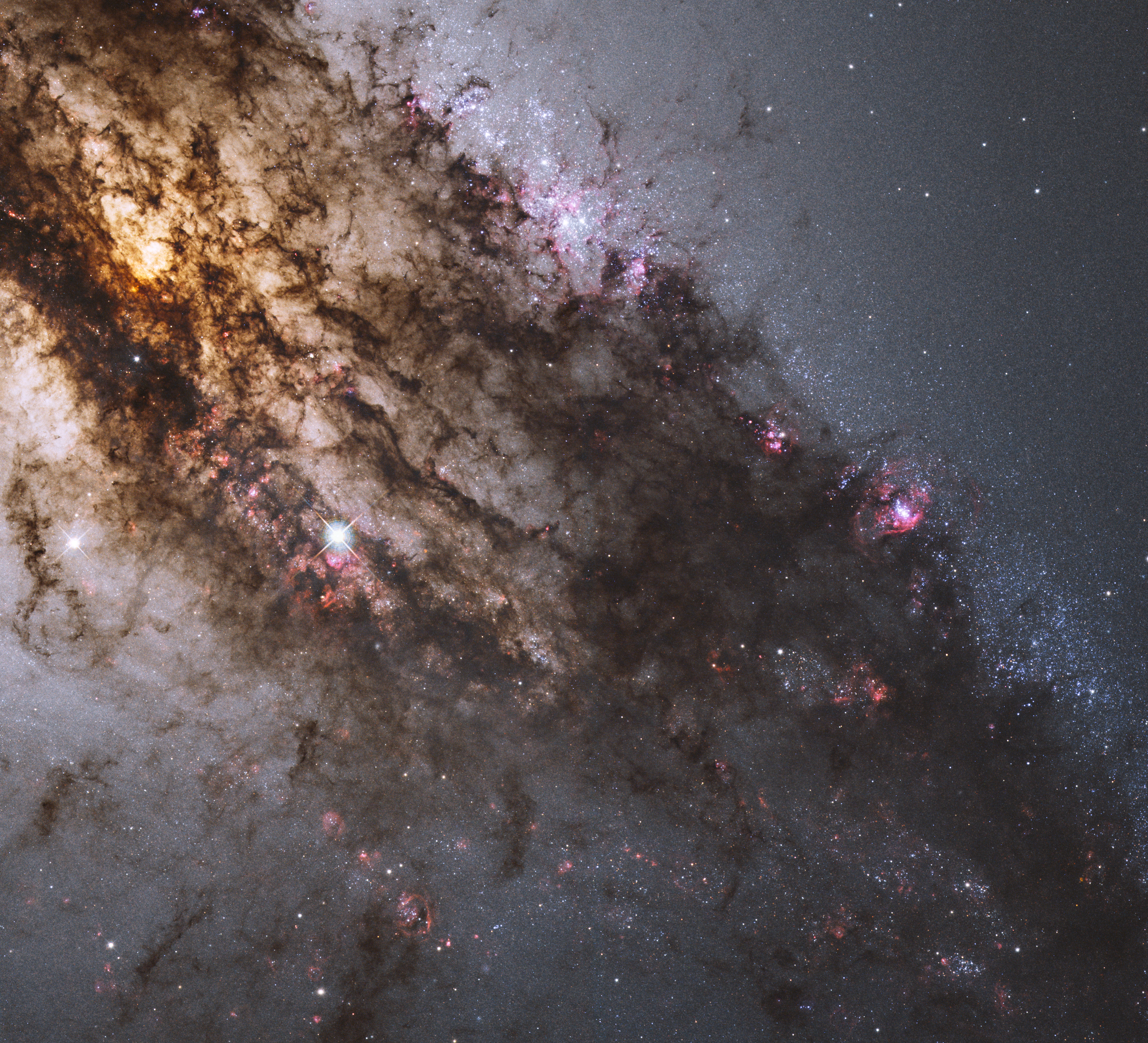 Resembling looming rain clouds on a stormy day, dark lanes of dust crisscross the giant elliptical galaxy Centaurus A. Hubble's panchromatic vision, stretching from ultraviolet through near-infrared wavelengths, reveals the vibrant glow of young, blue star clusters and a glimpse into regions normally obscured by the dust. The warped shape of Centaurus A's disk of gas and dust is evidence for a past collision and merger with another galaxy. The resulting shockwaves cause hydrogen gas clouds to compress, triggering a firestorm of new star formation. These are visible in the red patches in this Hubble close-up. At a distance of just over 11 million light-years, Centaurus A contains the closest active galactic nucleus to Earth. The center is home for a supermassive black hole that ejects jets of high-speed gas into space, but neither the supermassive black hole nor the jets are visible in this image. This image was taken in July 2010 with Hubble's Wide Field Camera 3.